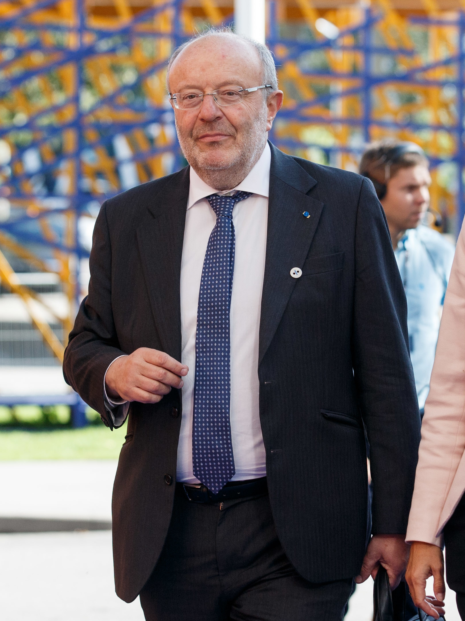 Fernando García Casas, Secretary of State for International Cooperation and for Ibero-America, Ministry of Foreign Affairs and Cooperation, Spain Photo: Raul Mee (EU2017EE)